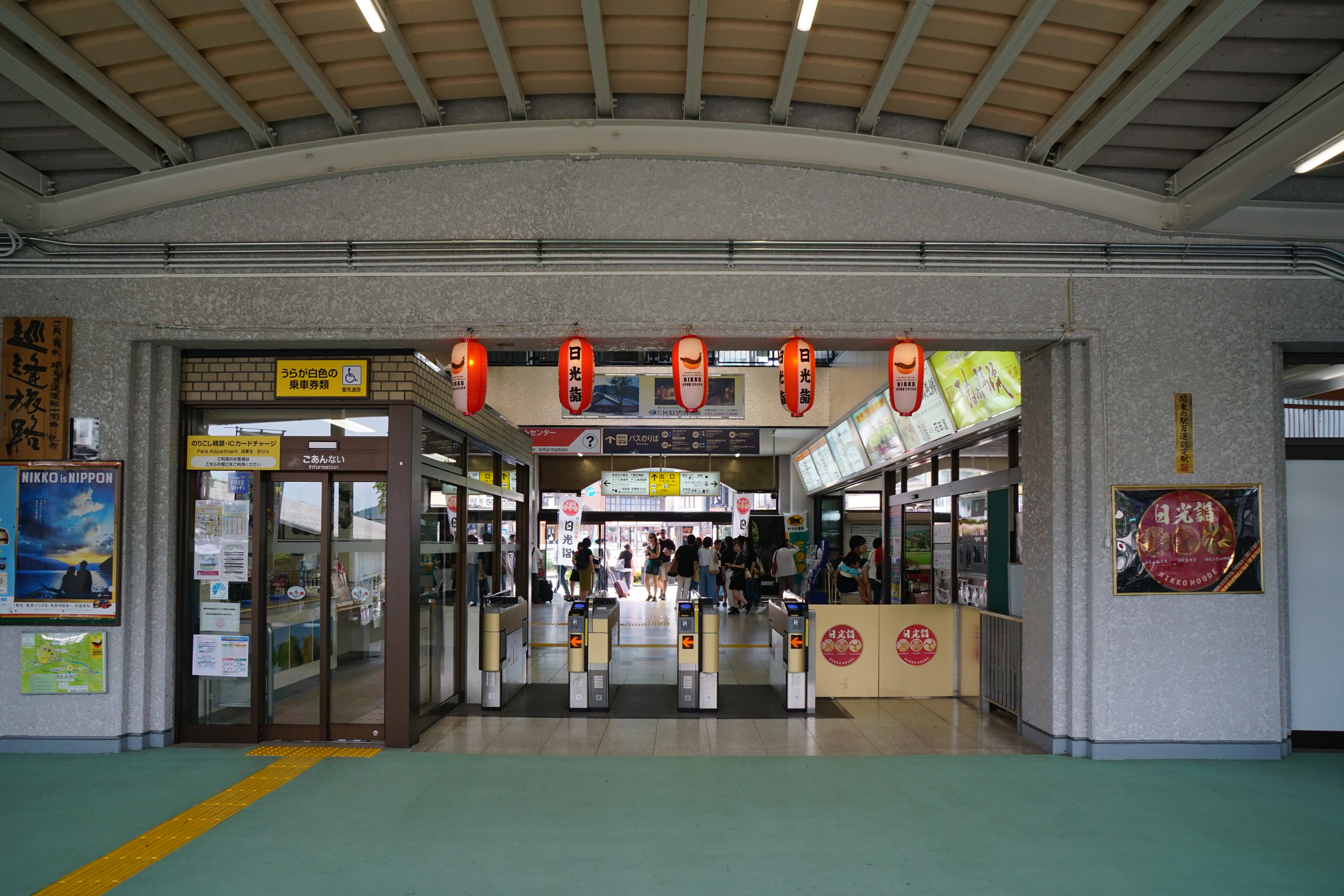 Tōbu Nikkō Station in Nikko, Tochigi prefecture, Japan